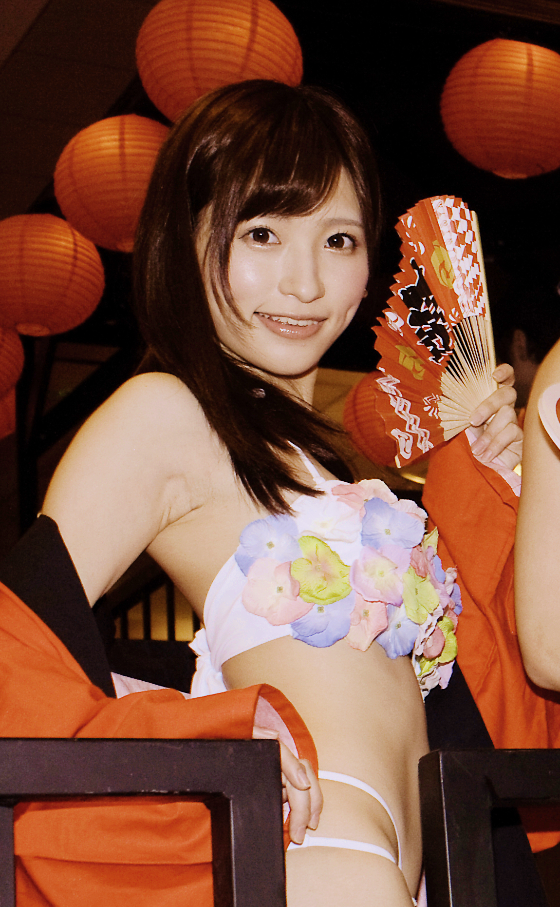 Moe Amatsuka is a Japanese AV idol.